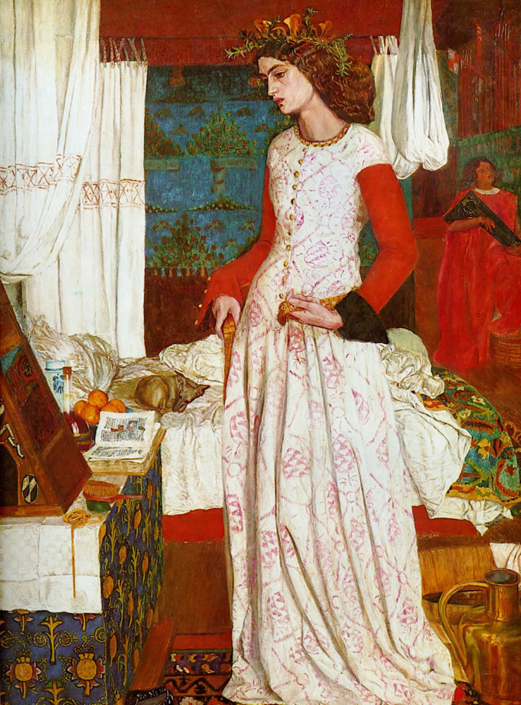 "This is the only completed easel painting that William Morris produced. It is a portrait in medieval dress of Jane Burden, whom Morris married in April 1859. The picture has been identified in the past as Queen Guenevere, partly owing to the fact that Morris published his first volume of poetry, The Defence of Guenevere, in March 1858. However, recent research has established convincingly that the picture is intended to represent Iseult mourning Tristram's exile from the court of King Mark."— "La Belle Iseult" on .uk